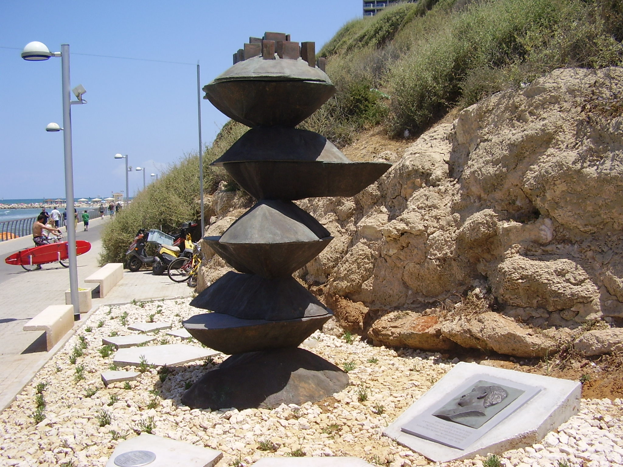 haim arlosoroff memorial in tel aviv beach, israel אנדרטה לזכר חיים ארלוזורוב במקום בו נרצח, בחוף תל אביב